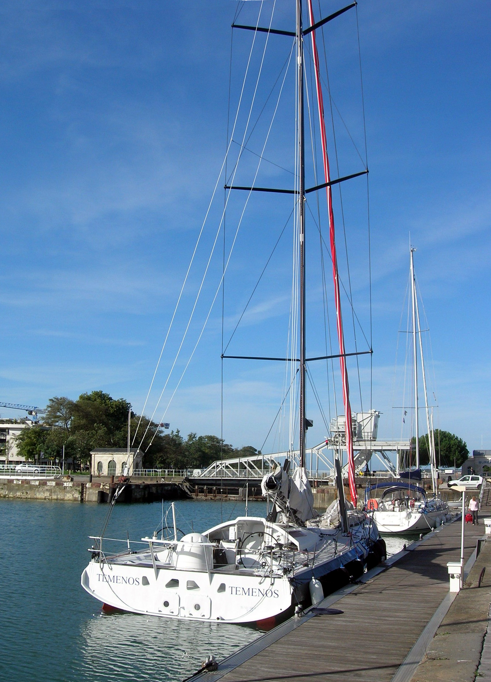 Description =Temenos dans le port de la Rochelle Source =Photo taken by Remi Jouan Date =Octobre 2006 Author =Remi Jouan